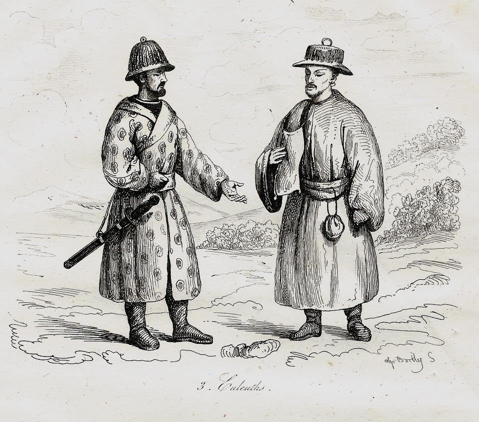 Olots